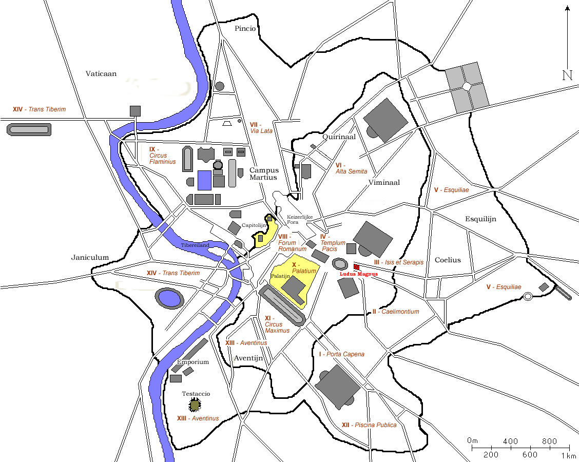 Ludus Magnus on a map of ancient Rome around 300 AD